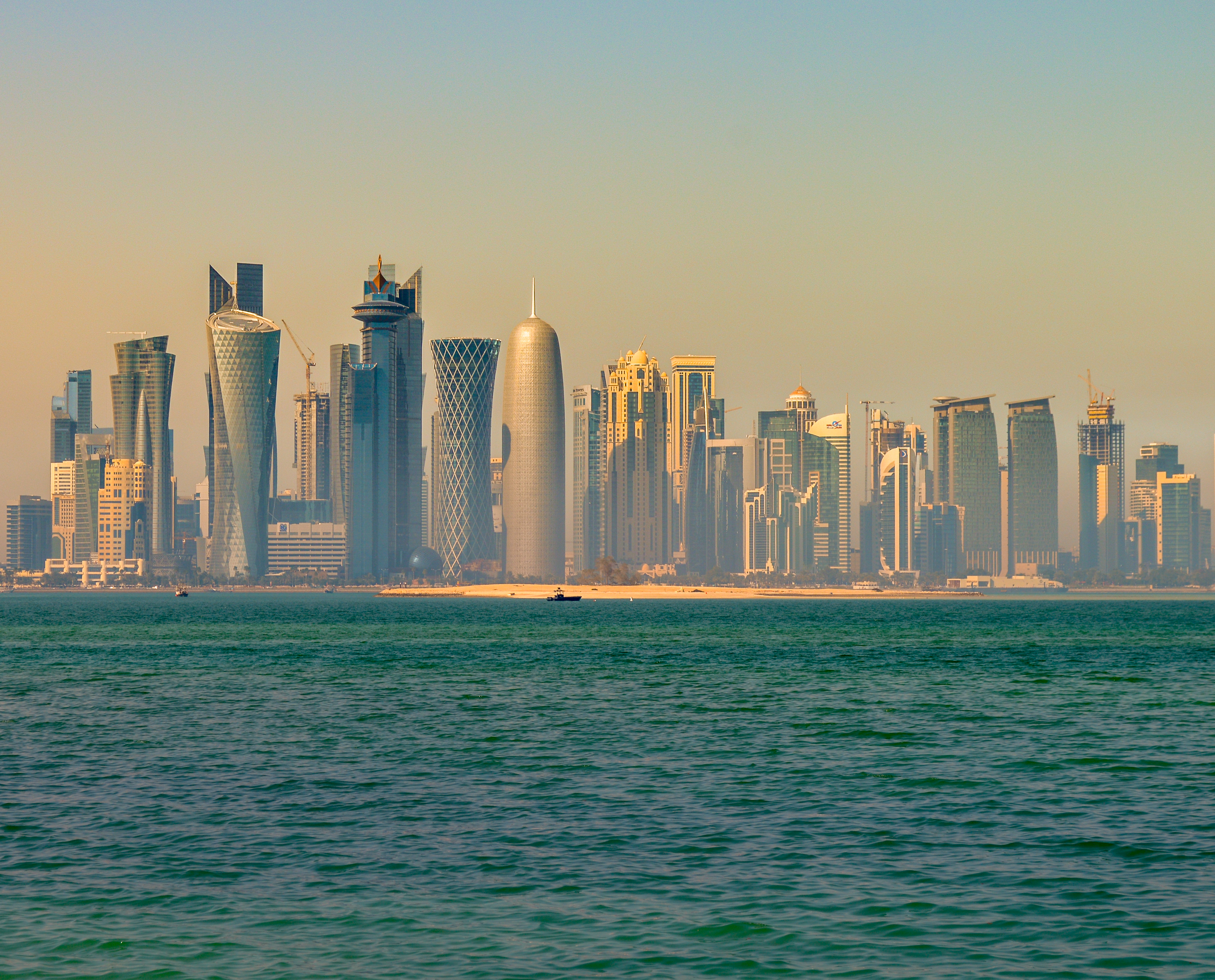 Doha skyline in the morning